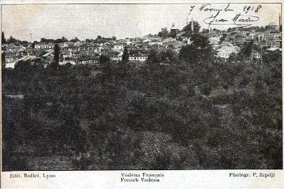 View on Edessa, Greece.